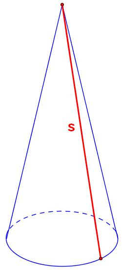 Cone with highlighted side